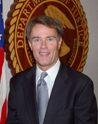 American Democratic Politician and Attorney Joe Hogsett, Official U.S. Attorney's portrait.